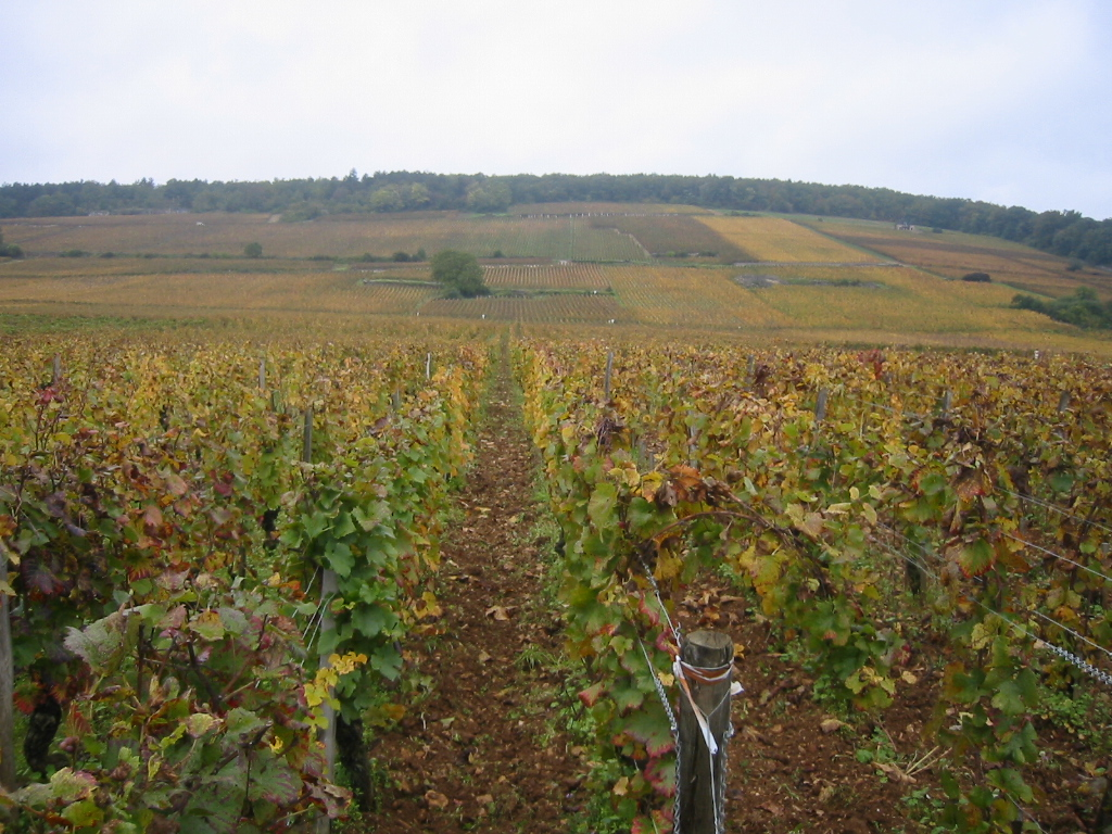 Vineyards in Gevrey Chambertin in Burgundy in autumn